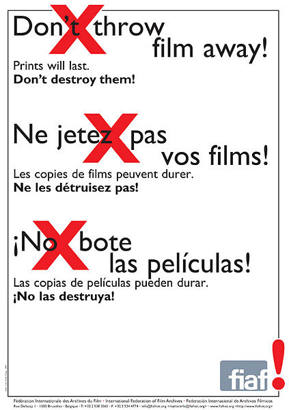 Ne dobj el filmet!